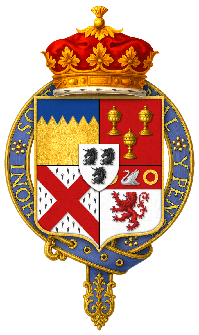 Coat of arms of James Butler, 1st Duke of Ormonde, KG Note: The four quarters displayed here follow the ordering of those on Ormonde's stall plate in St. George's chapel. The 3rd and 4th quarters are quite often reversed in other displays these arms.